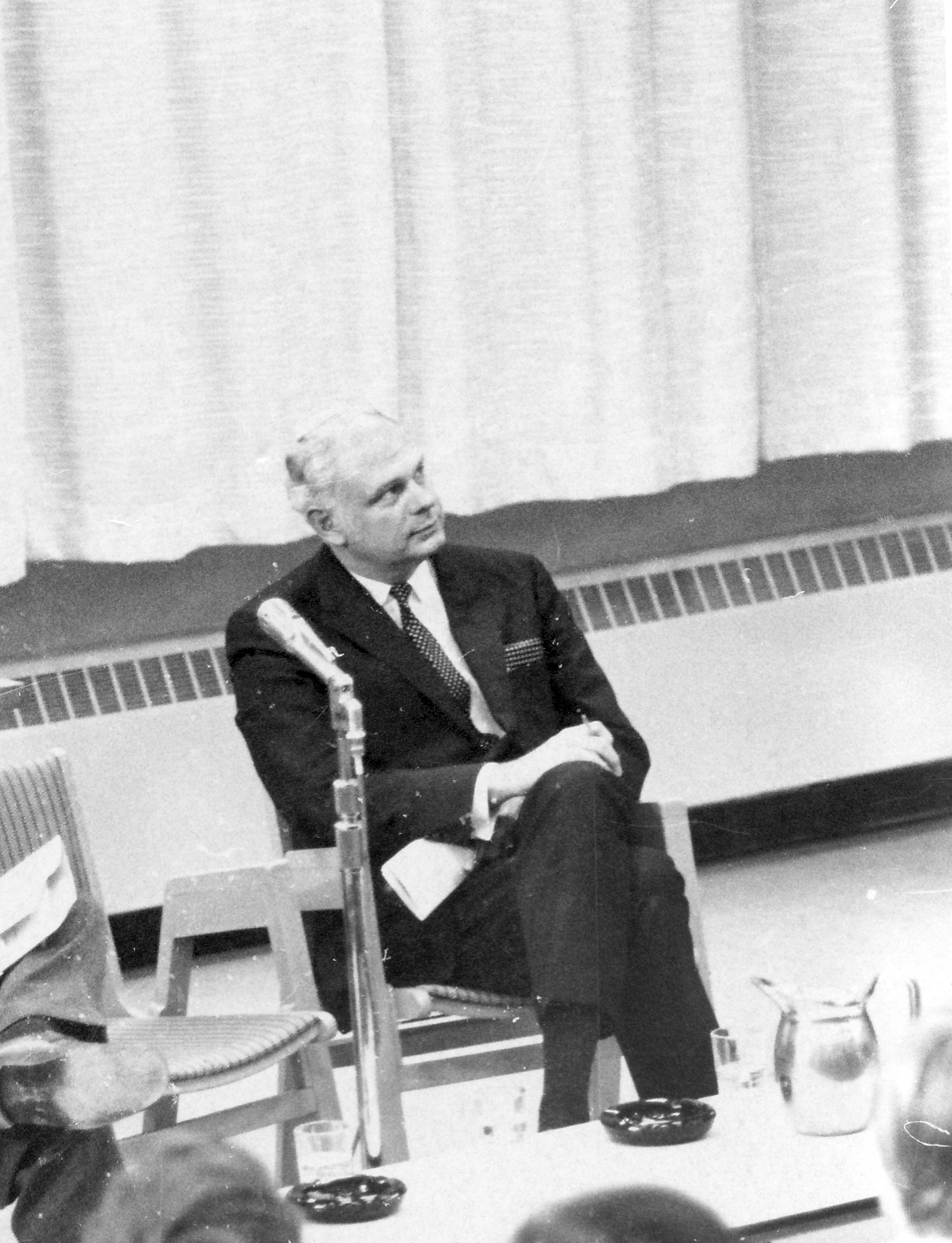 Paul Hellyer, Canadian politician, circa 1969